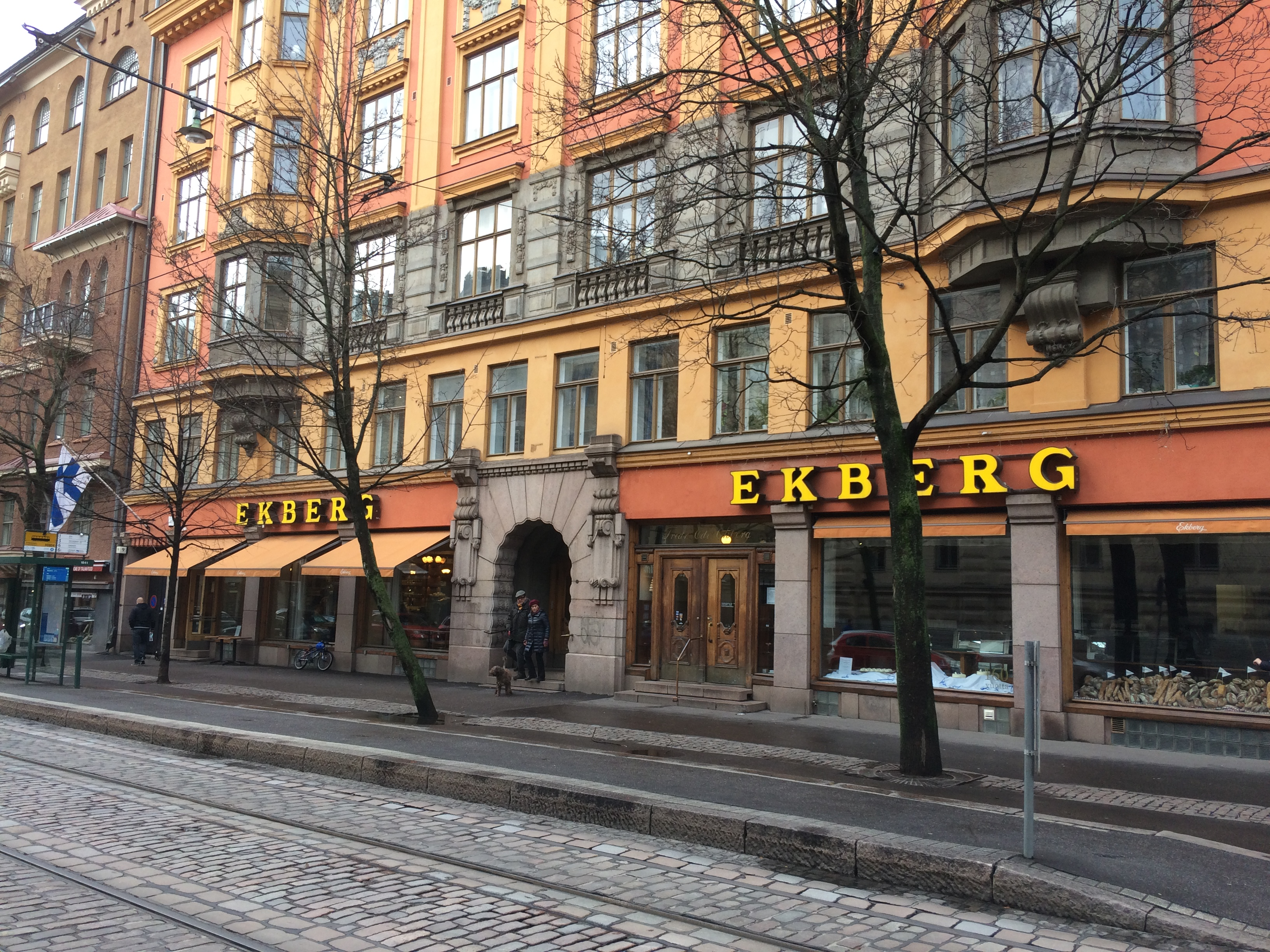 Ekbergs café, Helsinki, 12 november 2017